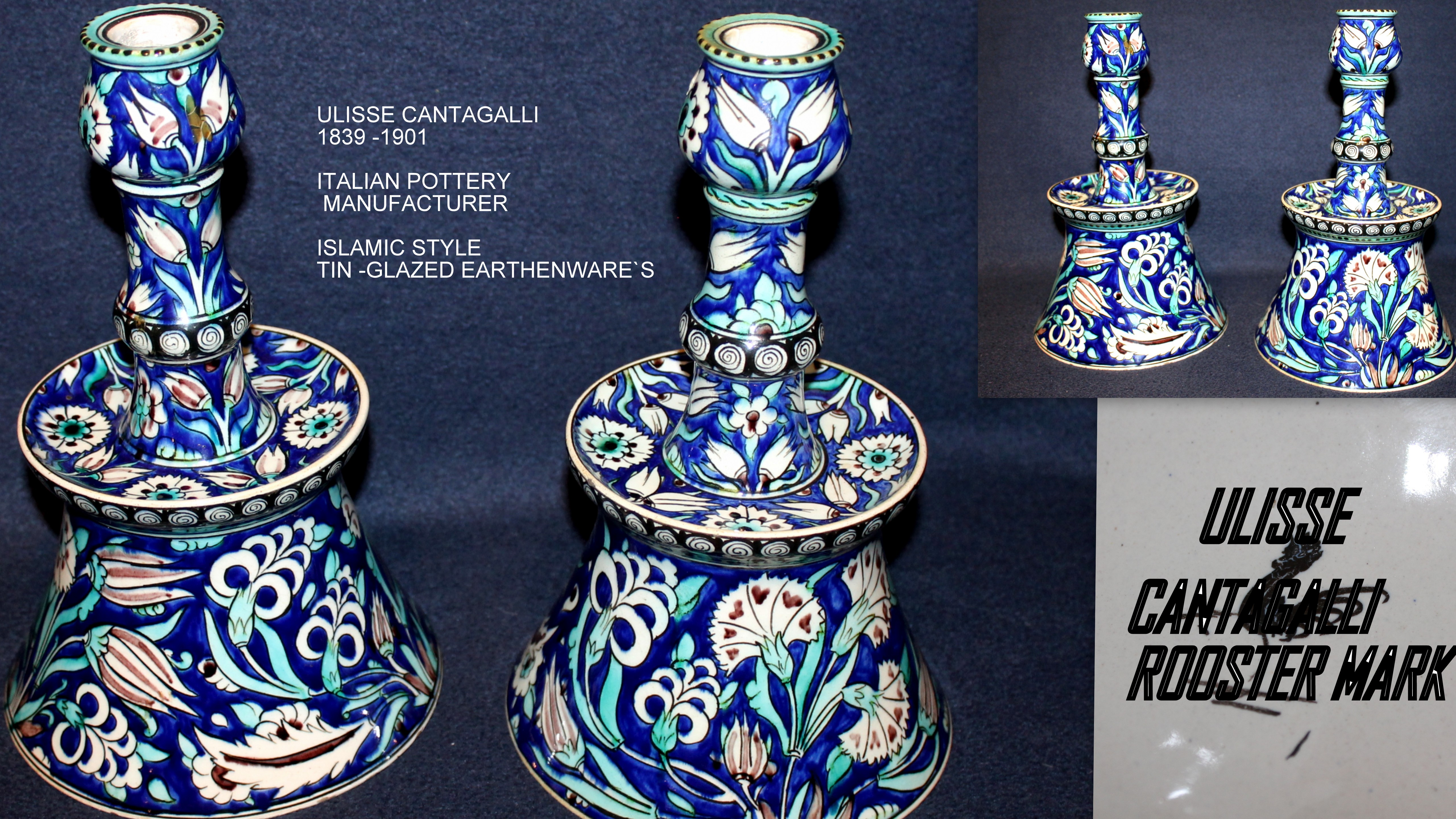 A Pair of Lustre Pottery Candlesticks, tin-glazed earthenware with Tulip design "Islamic Iznik style Ottoman Empire " White ground painted in colours with leaves and flowers, painted in cobalt blue, red (bole), turquoise and black under the glaze Ulisse Cantagalli makers rooster mark, Provenance Anton Biederwolf alias " King Muh " Ulisse (d. 1901) and Guiseppe Cantagalli had a workshop in Florence. They produced Iznik style pottery after 1878. They put a rooster trademark inside foot rim. See: Denny, Walter B. (2004), Iznik: the artistry of Ottoman ceramics, page 222, London: Thames & Hudson, ISBN 978-0-500-51192-3 The Victoria and Albert Museum in London has some examples of pottery produced by Ulisse Cantagalli - see here